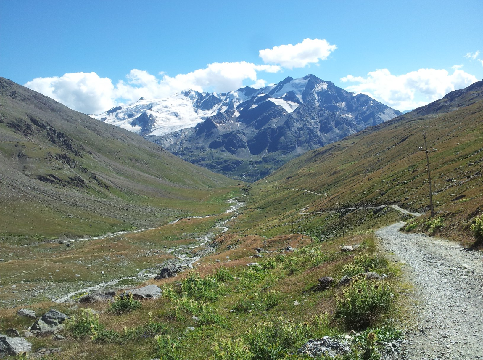 23030 Valfurva, Province of Sondrio, Italy